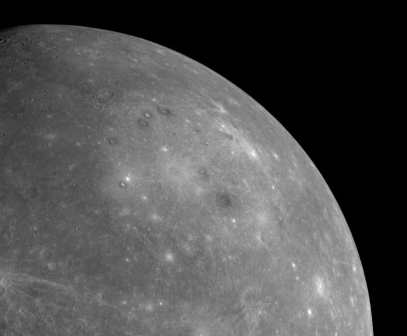 MESSENGER's first photo of the previously-unseen hemisphere of Mercury, cropped to highlight the location of Caloris Basin. Location identified using as a source.